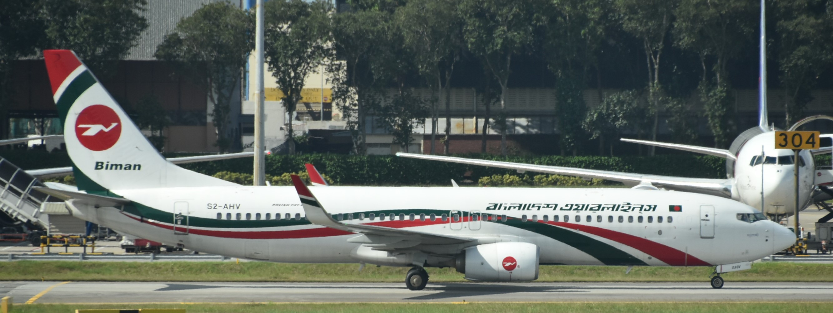 Boeing 737/8Wof Biman Bangladesh Airlines at Singapore-SIN,05/09/17.